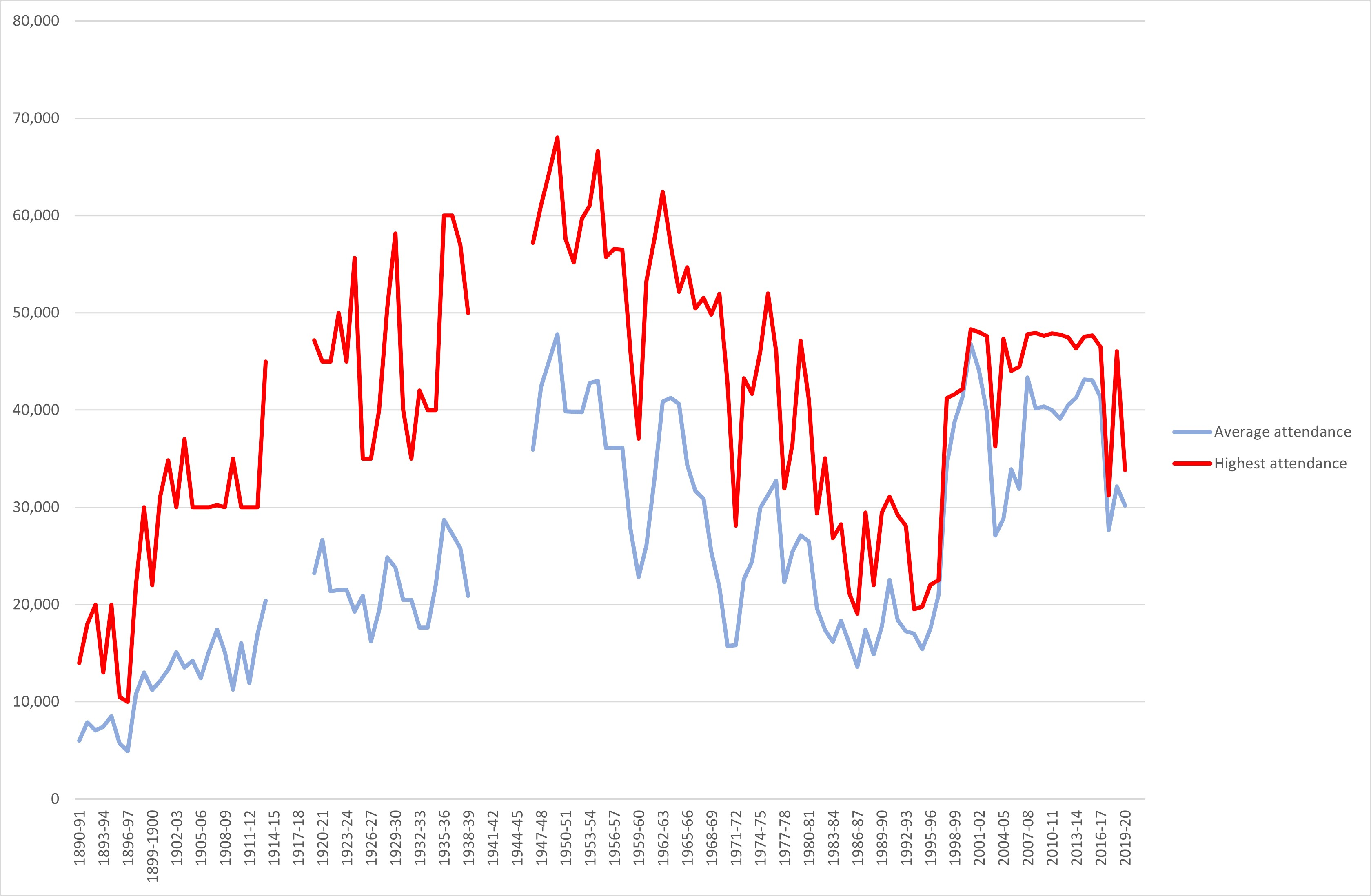 Average and highest attendances recorded at Sunderland's home stadiums. Red line denotes Highest attendance, while blue line denotes seasonal average attendace. Blank spaces denote when the First and Second World Wars halted league football in England.